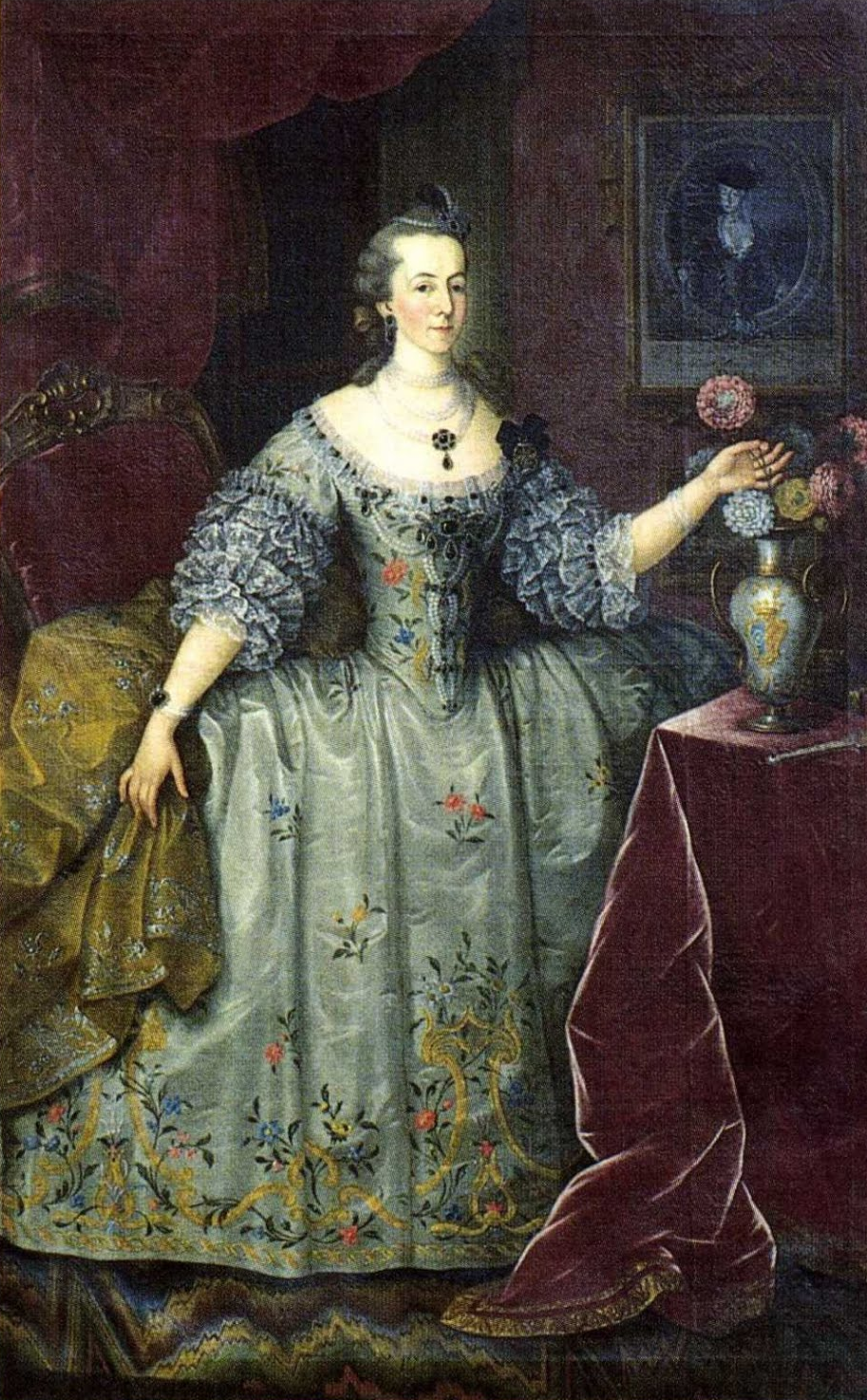 D. Leonor Ernestina de Daun, 1st Marchioness of Pombal.